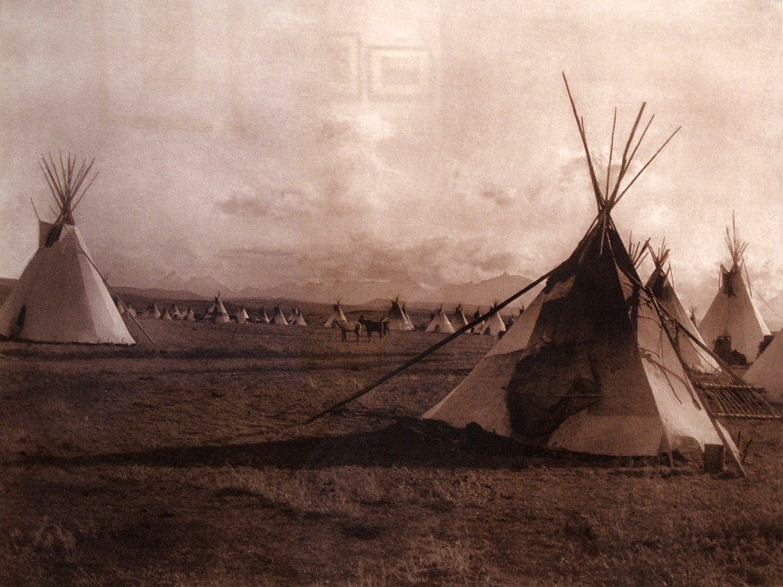 Blackfeet tipis (tepees)